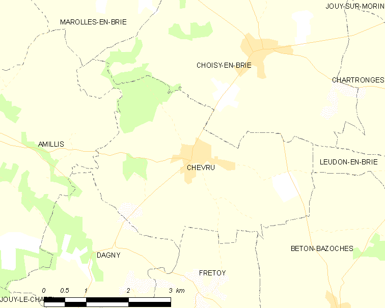 Map of French municipality Chevru